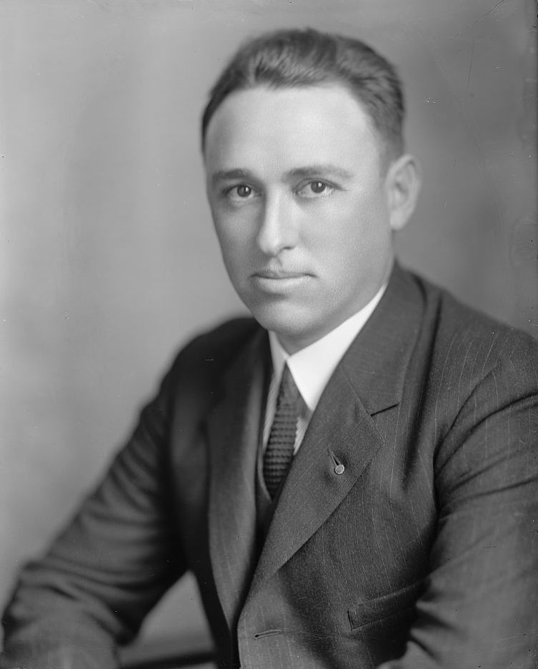 U.S. Congressman and Tennessee Governor Gordon Browning (1889–1976)